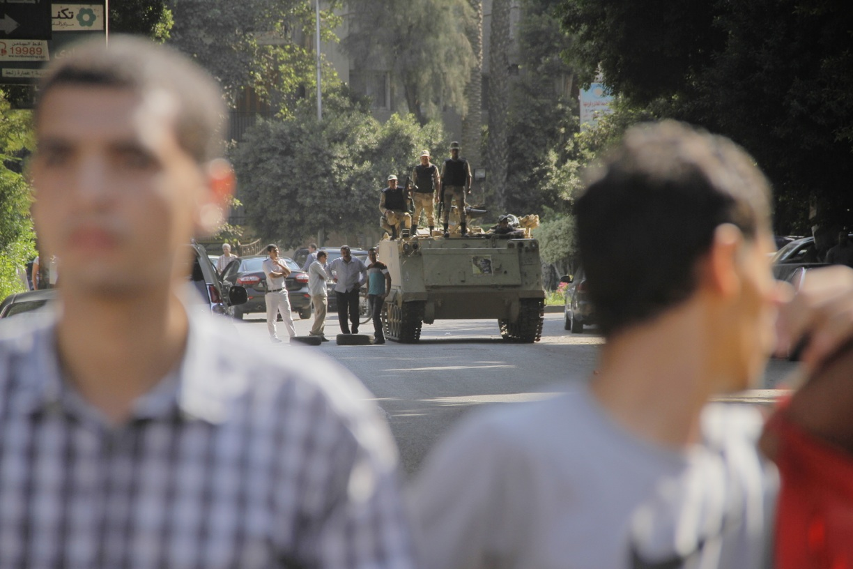 Original description: "Egyptian security forces are seen over the shoulders of protesters in Maadi, southern Cairo, Sept. 20, 2013. (Hamada Elrasam for VOA)"